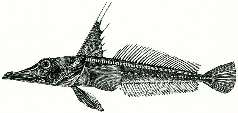 Charcoal icefish Channichthys panticapaei Shandikov, 1995